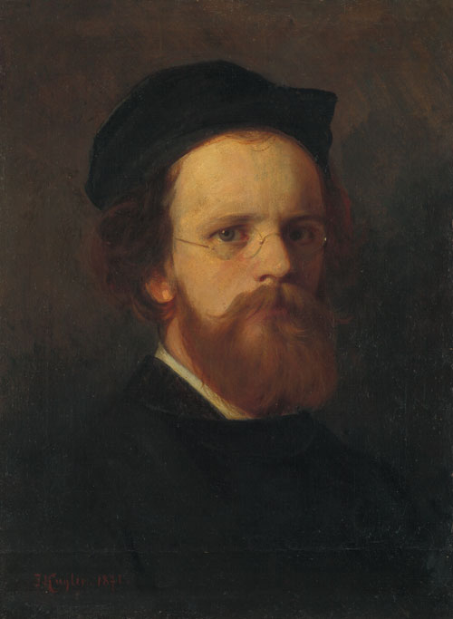 Sold as Portrait of Franz von Lenbach, 1871, by Hans Kugler (1840–1873). Possibly a portrait of Kugler by Lenbach, or a portrait of an unknown man.